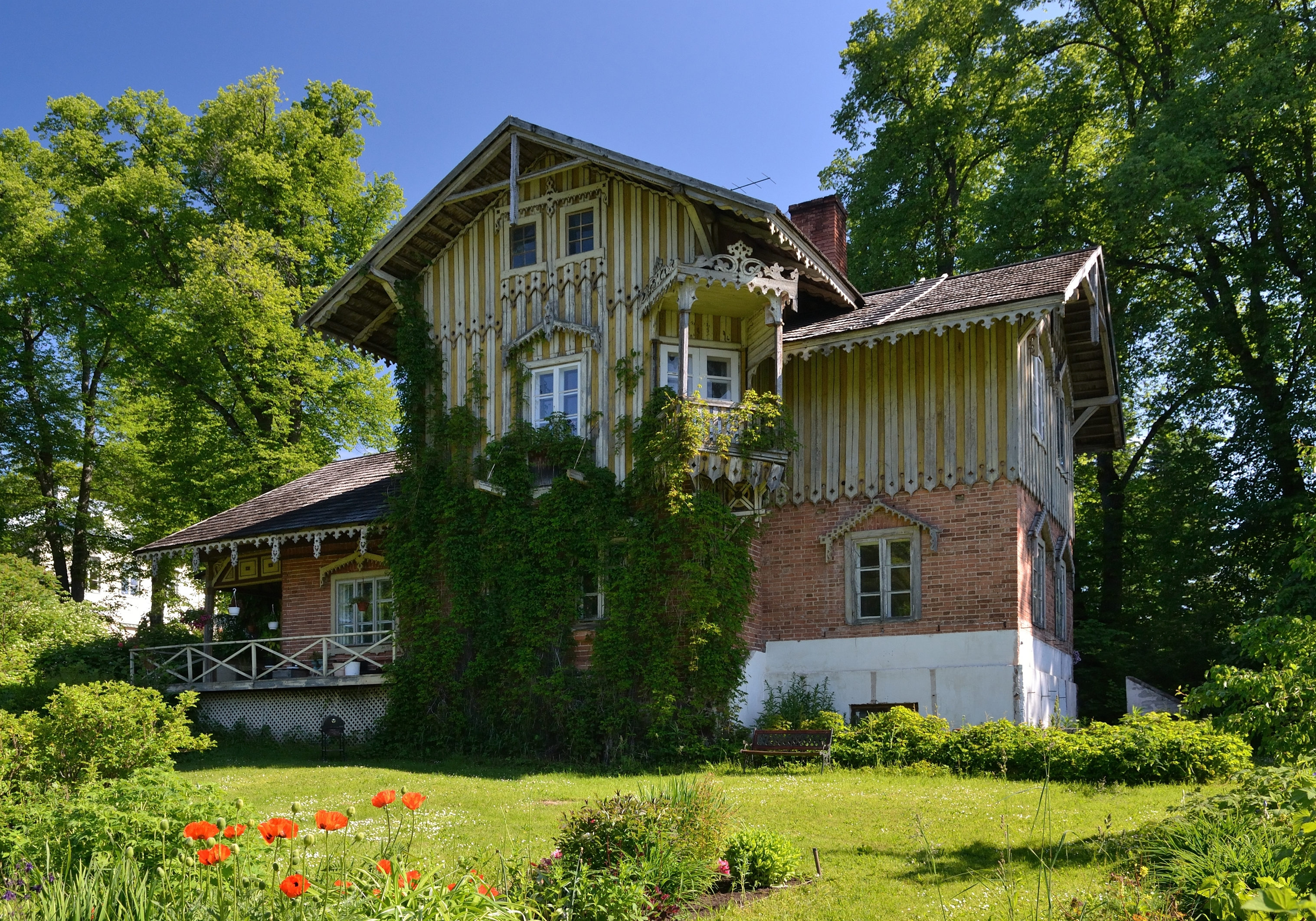 Luua manor cavalier's house